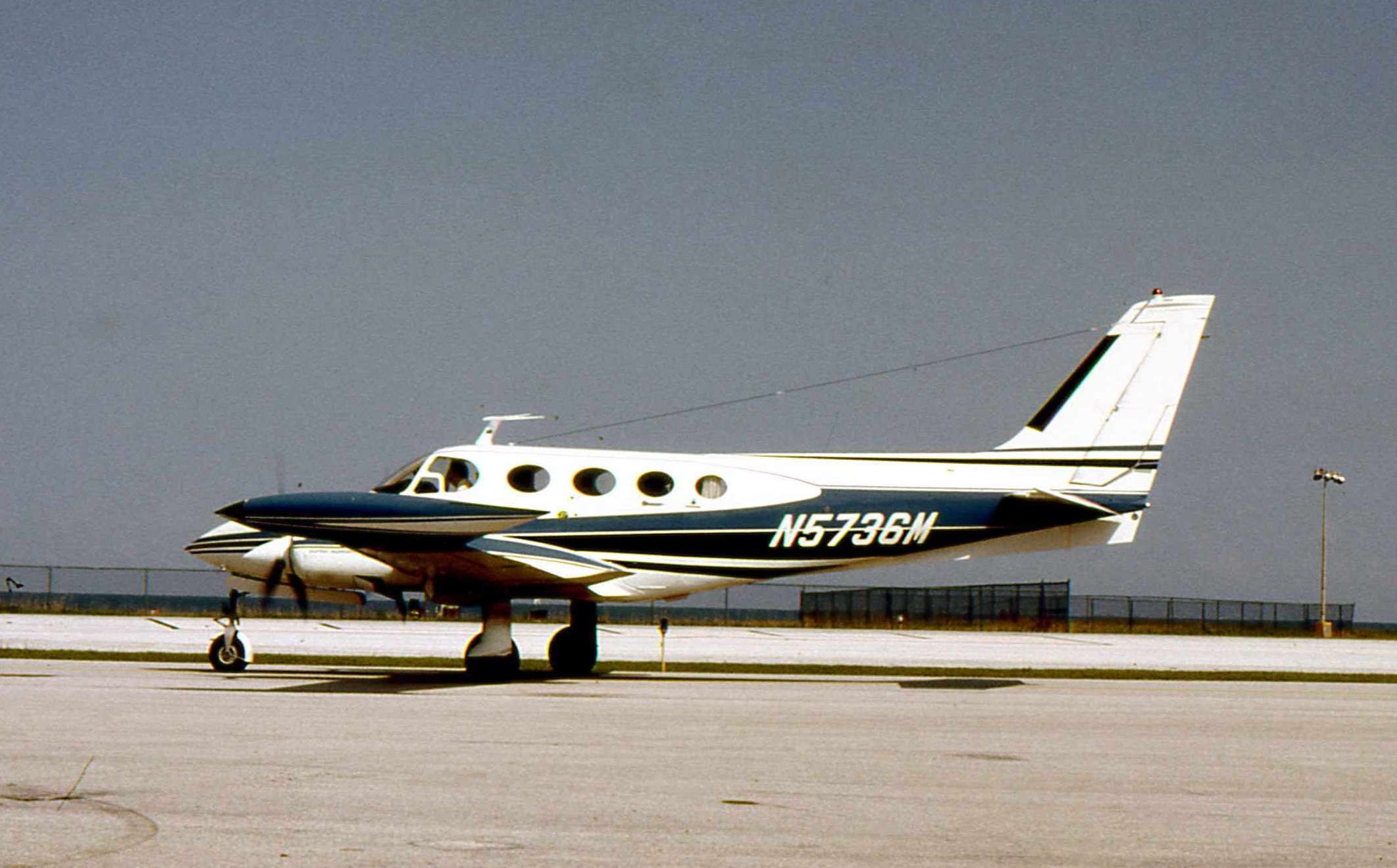 United States, Chicago, Meigs Field. Cessna 340 N5736M, c/n 340-0039, built in 1972.